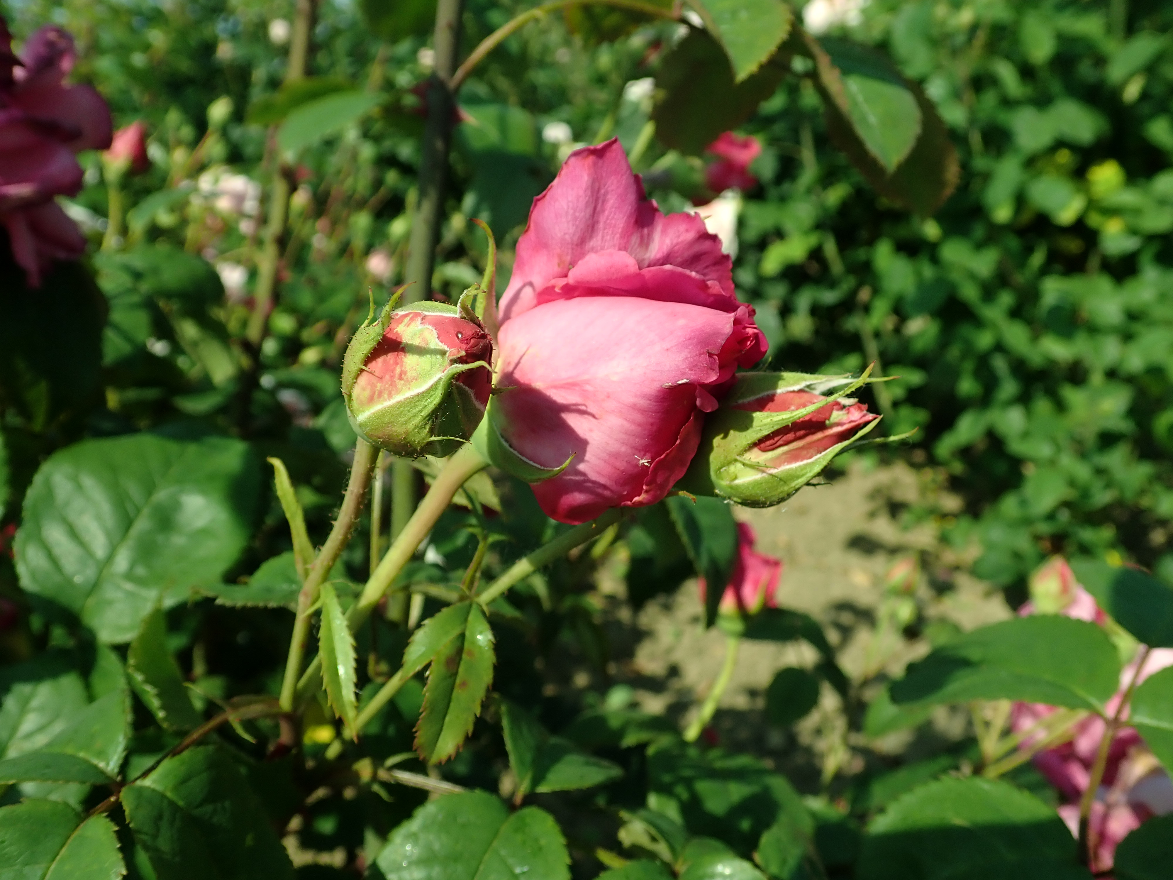 Rosa ‘Hilda Murrell’ (David Austin, 1984), Europa-Rosarium Sangerhausen.